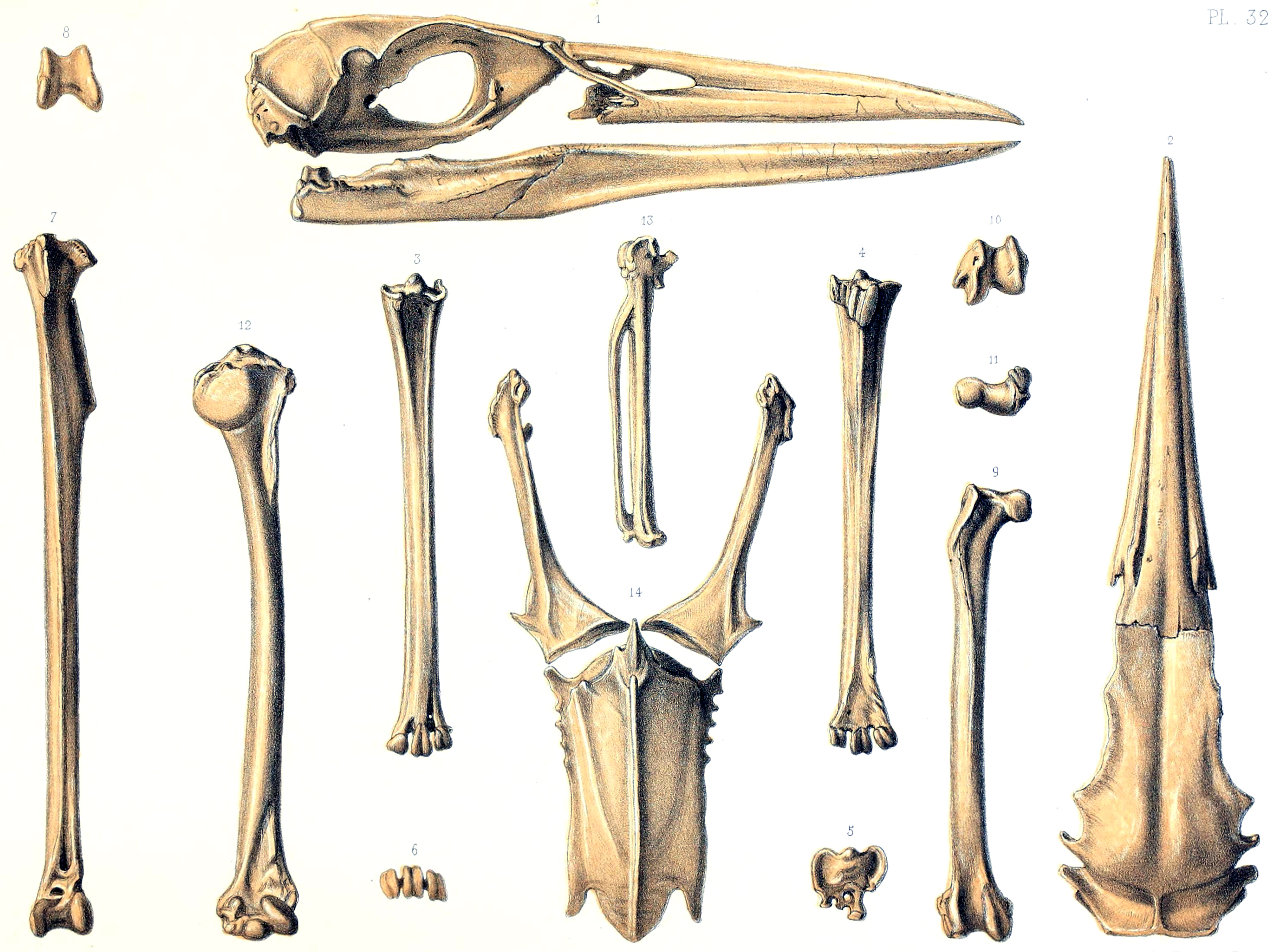 Skull and other elements of Nycticorax megacephalus.